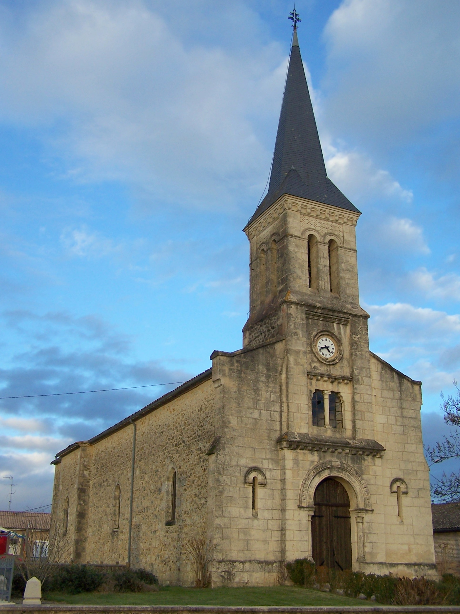 Church of Sigalens (Gironde, France)